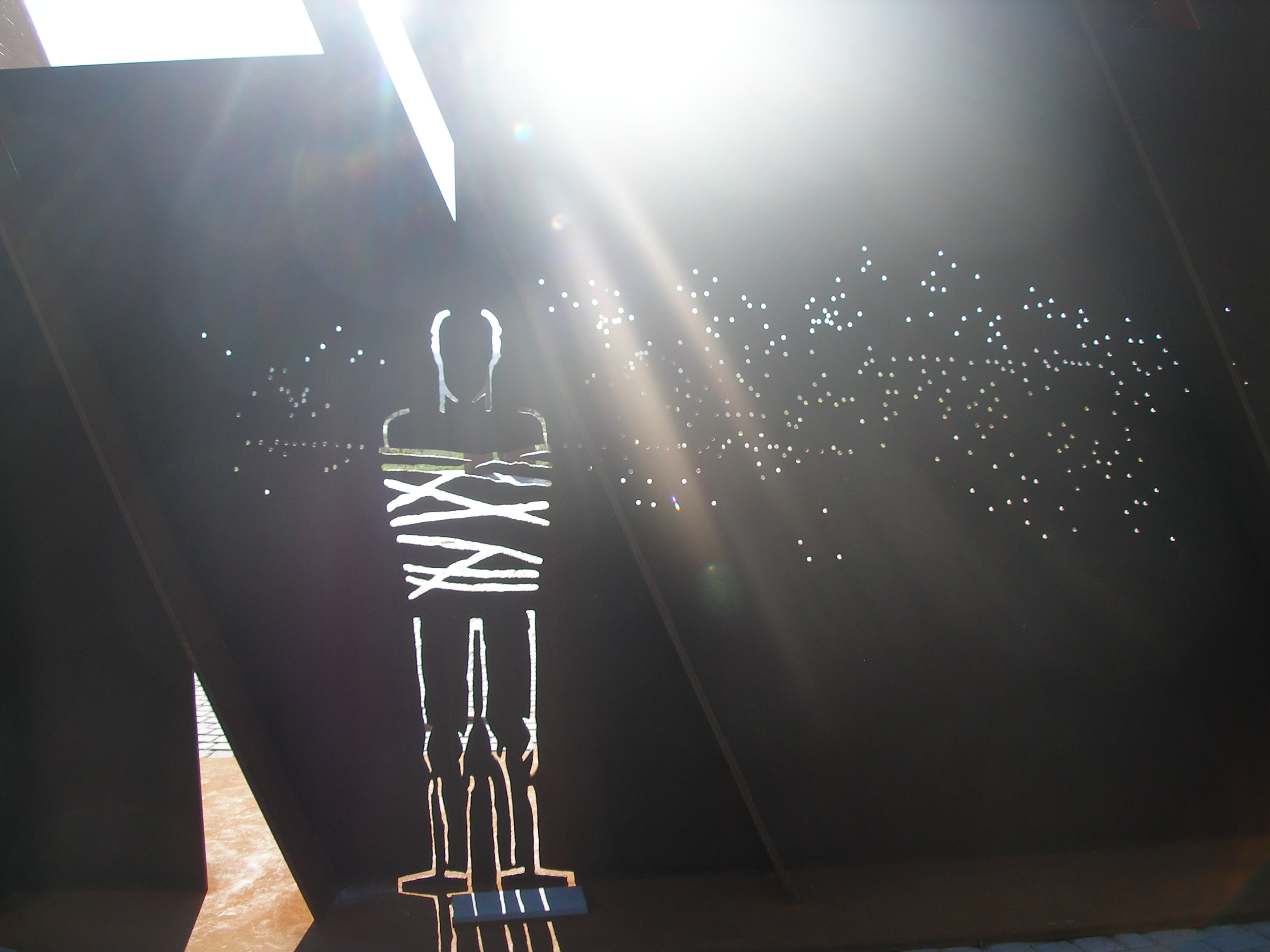 Park of Memory, Sartaguda, Navarre